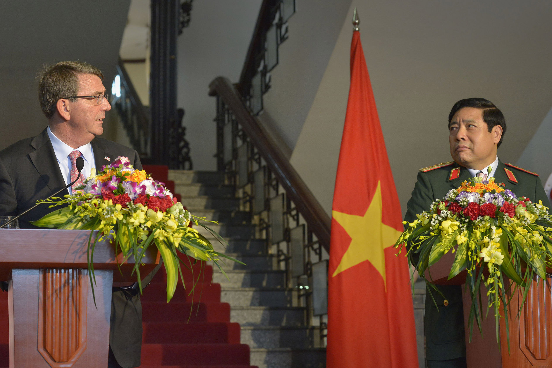 Defense Secretary Ash Carter, left, and Vietnamese Defense Minister General Phung Quang Thanh, hold a press conference in Hanoi, Vietnam, June 1, 2015. Carter is on a 10-day trip to the Asia-Pacific to meet with partner nations and affirm U.S. commitment to the region.